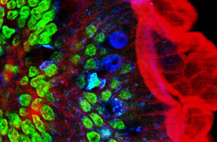 Original figure legend: Multiple fluorescence 2PE imaging. 2PE multiple fluorescence image from a 16 μm cryostat section of mouse intestine stained with a combination of fluorescent stains (F-24631, Molecular Probes). Alexa Fluor 350 wheat germ agglutinin, a blue-fluorescent lectin, was used to stain the mucus of goblet cells. The filamentous actin prevalent in the brush border was stained with red-fluorescent Alexa Flu or 568 phalloidin. Finally, the nuclei were stained with SYTOX ® Green nucleic acid stain. Imaging has been performed at 780 nm, 100 x 1.4 NA Leica objective, using a Chameleon XR ultrafast Ti-Sapphire laser (Coherent Inc., USA) coupled at LAMBS-MicroScoBio with a Spectral Confocal Laser Scanning Microscope, Leica SP2-AOBS.